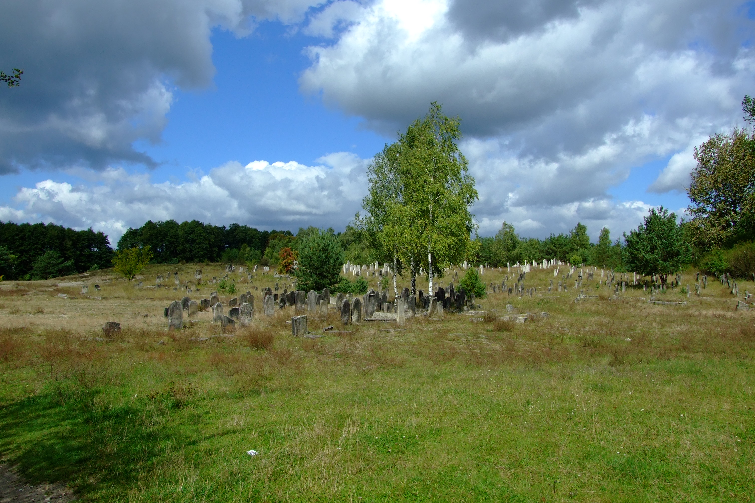 Jewish cemetery in Żarki/Poland